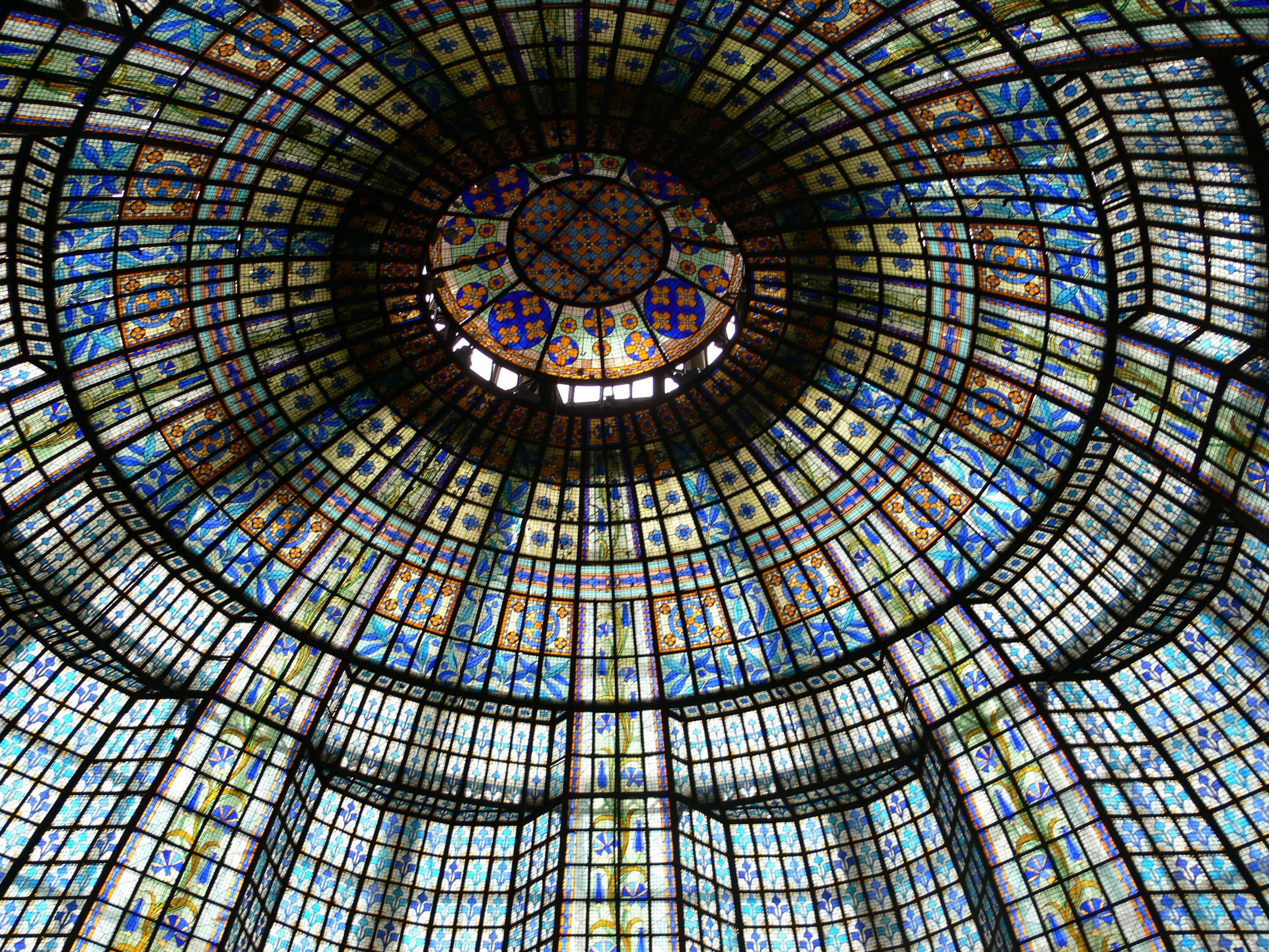 Restaurant in the Printemps department store, boulevard Haussmann, Paris, France